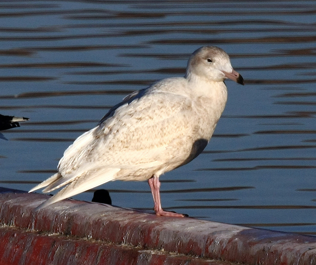 Glaucous Gull immature, probably second winter. Sparks Marina, Nevada.